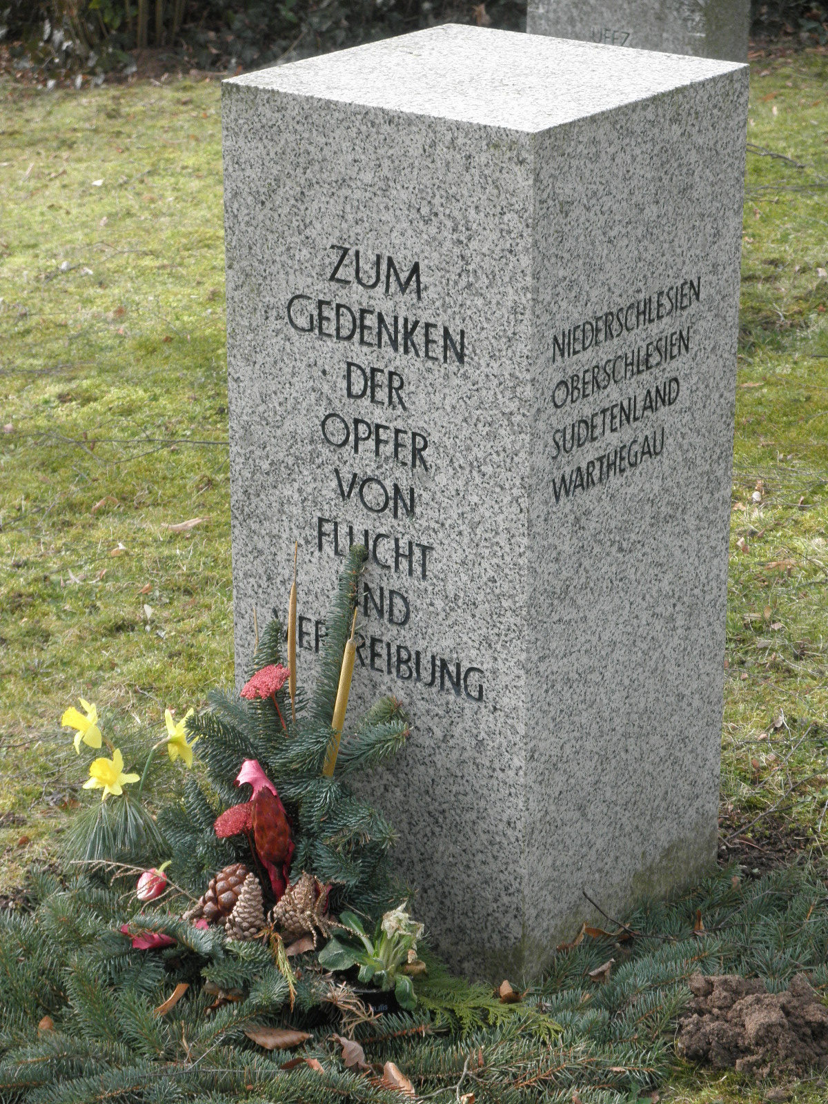 Victims of Expulsion at Cemetery in Sondershausen in Thuringia